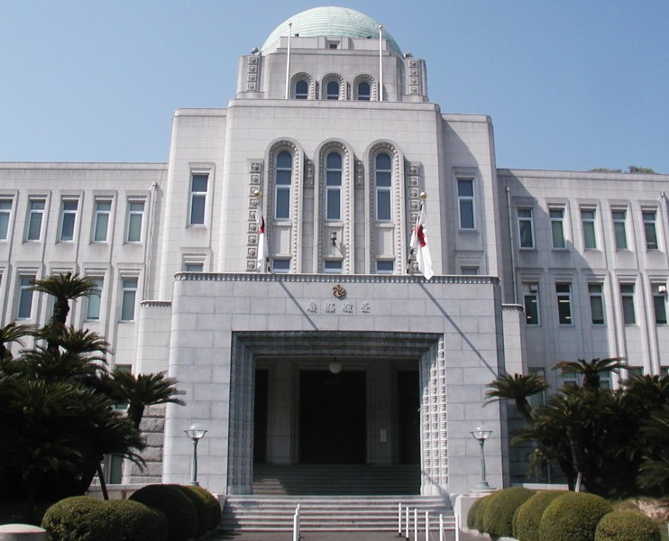 Photograph of Ehime agency（愛媛県庁）.